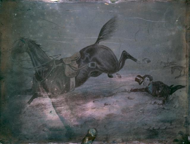 L. Hill, cavalier chutant de son cheval (d’après peinture ou estampe), hillotype, 16,5 x 21,5 cm (pleine plaque), v. 1850-1855. Levi Hill of Westkill, NY, claimed for the first time to have invented a way to produce naturally colored daguerreotypes, or Hillotypes, as they became known. When Hill refused to release the details of his process until a patent was filed, the profession denounced him as a fraud. In 156 years, no definitive evidence has been presented to suggest that Hill was or was not an imposter, until now. Using state-of-the-art technology, the 62 Hillotypes acquired by the Smithsonian in 1933 from Hill's son-in-law, John Boggs Garrison, finally gave up their secrets. Examination of a number of the Hillotypes by GCI scientists and curators from the Smithsonian�s photography collection have confirmed that Hill was indeed a genius - he did discover a method to create several natural colors in his photographs.